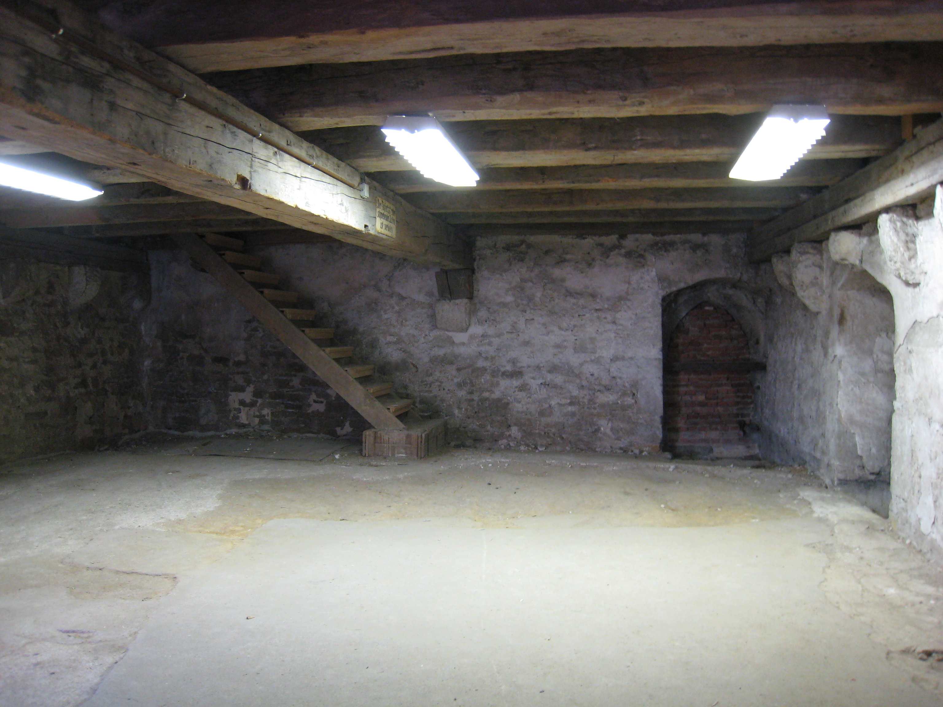 Kemenate Arnstadt, Rosenstraße